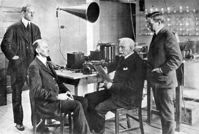 Original caption: "The first wireless college in the world! This distinction is claimed by Tufts College, Massachusetts. Thirteen members of the faculty have volunteered to give lectures on their subjects through radio at the American Radio and Research Corporation plant. The lectures will reach as far west as Wisconsin and as far south as Florida. In the photograph (reading from right to left) are Dr. Arthur I. Andrews, who will speak on 'Changes In Europe,' Professor Edward H. Rockwell, 'The Story of the Bridge Builder,' Dean Gardner C. Anthony, 'The Story of Engineering,' and Professor Albert H. Gilmer, 'The Modern Drama.'"